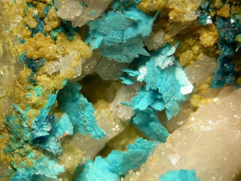 Posnjakite Locality: Špania Dolina (Urvölgy; Herrengrund), Špania Dolina ore belt, Starohorské Mts, Banská Bystrica Region, Slovakia (Locality at ) Field of view 5 mm. Specimen and photo Leon Hupperichs.